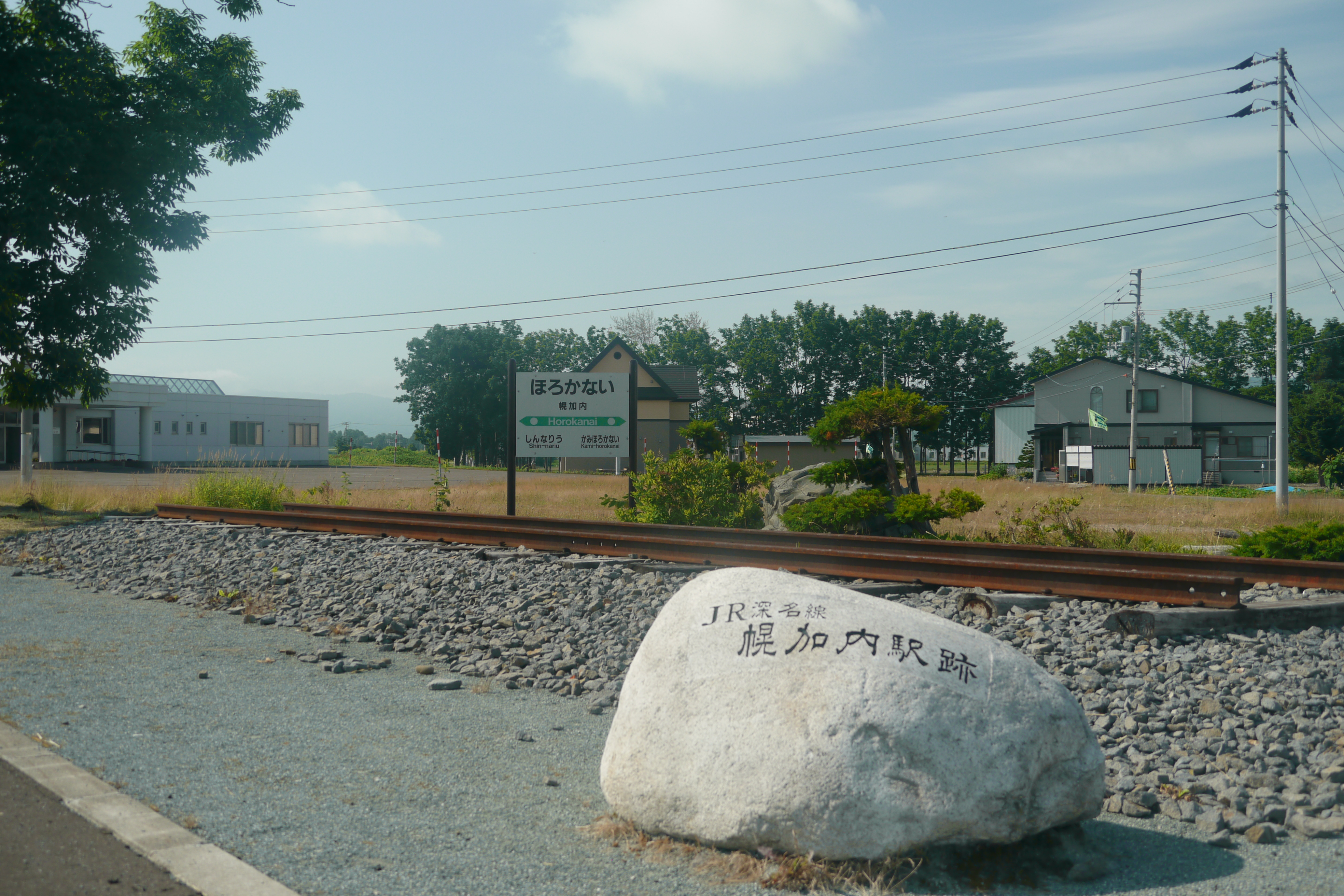 Remains of Horokanai Station of the Shinmei Line in Hokkaido, Japan.